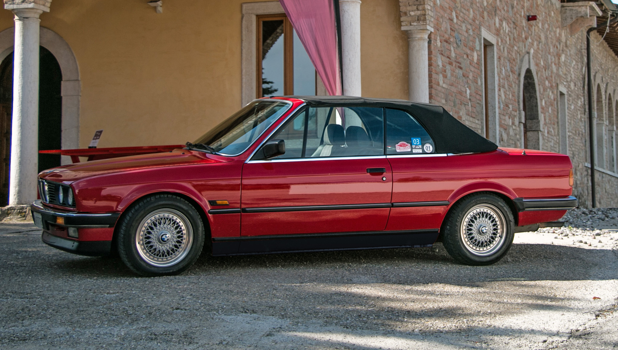 Bmw E30 320i cabriolet 1988 in original red color "zinnoberrot", with Oz Vega wheels